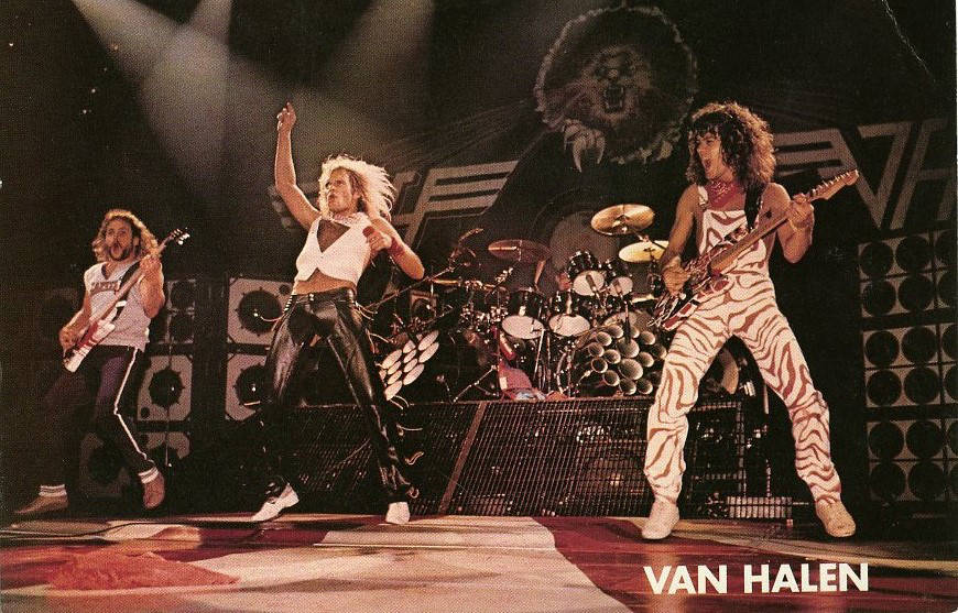 Van Halen, Live on Stage